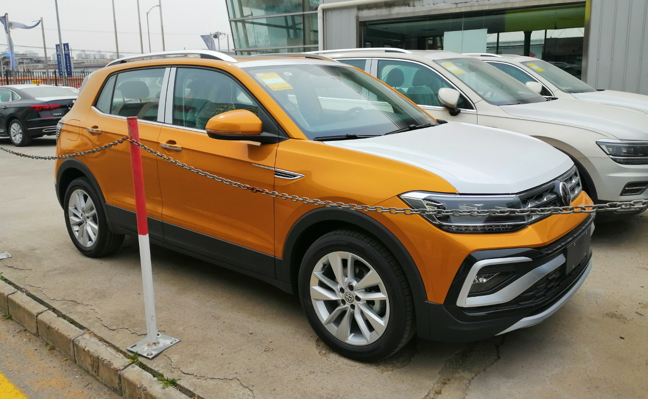 Volkswagen T-Cross CN photographed in Beijing, China.